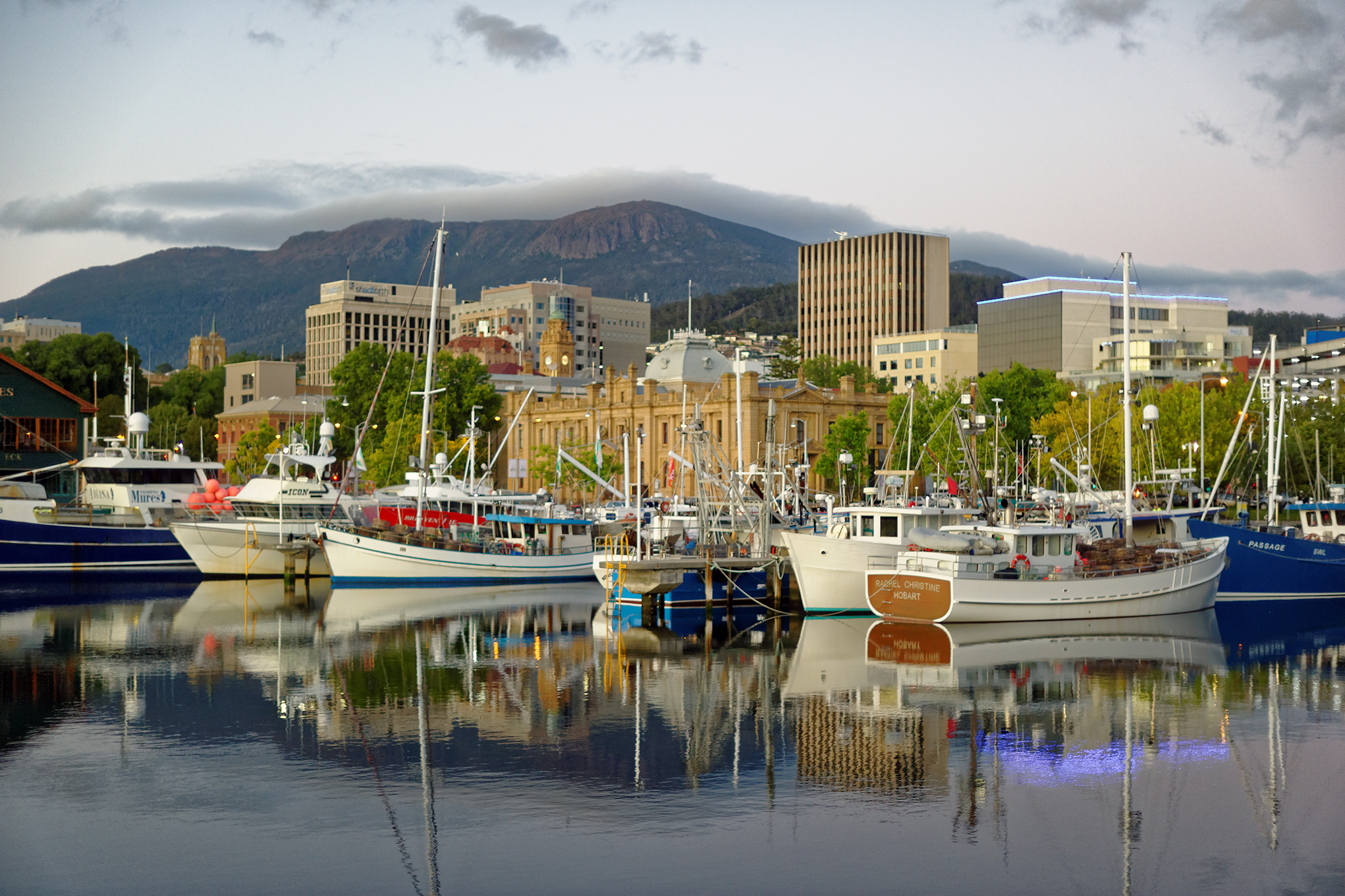 Franklin Wharf Hobart at sunrise 2015